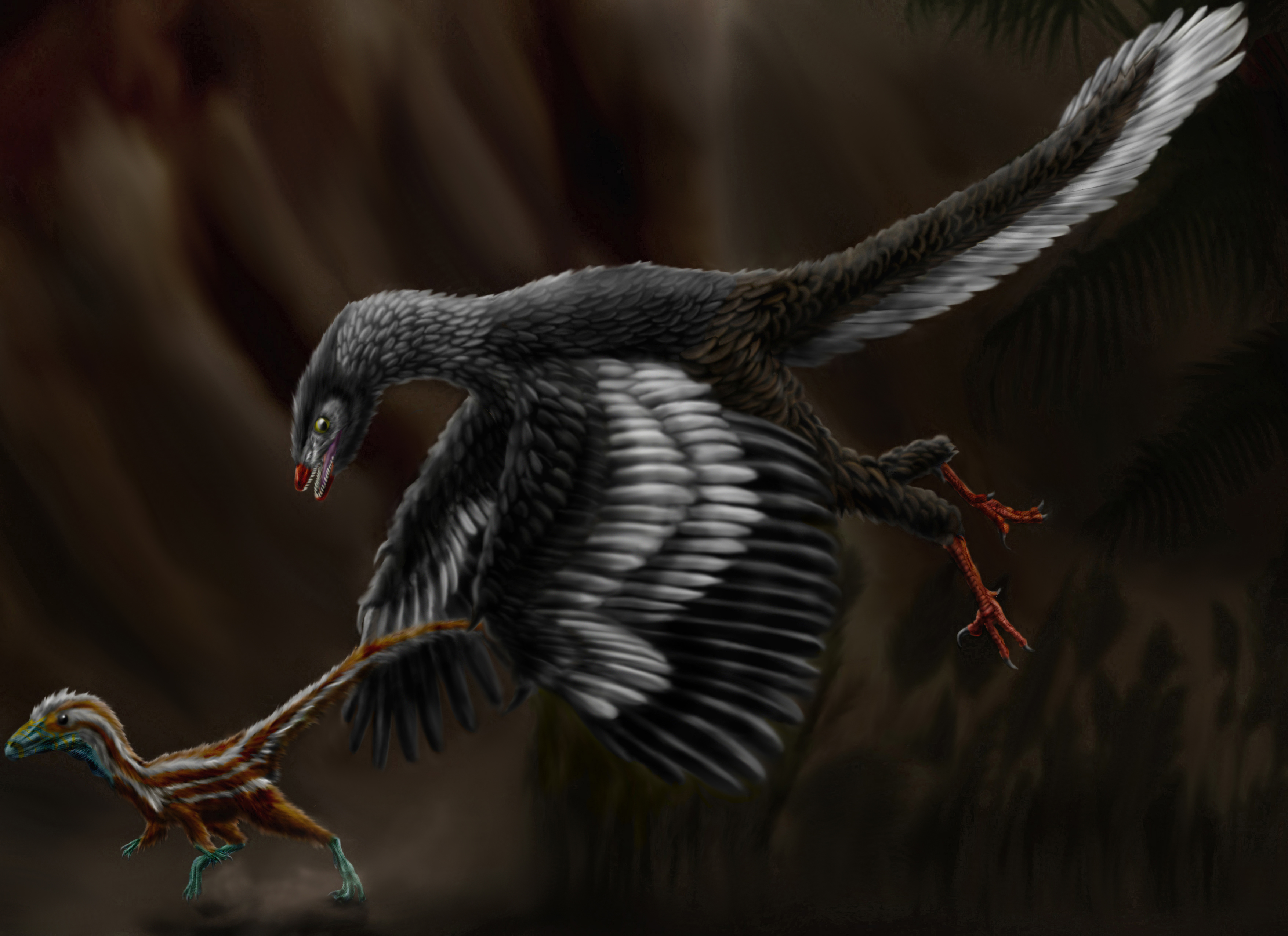 Illustration of Archaeopteryx lithographica chasing a juvenile compsognathid (Compsognathus longipes) through Late Jurassic Germany at night.